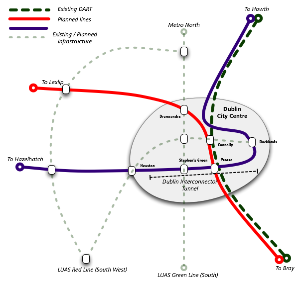 John Curtis